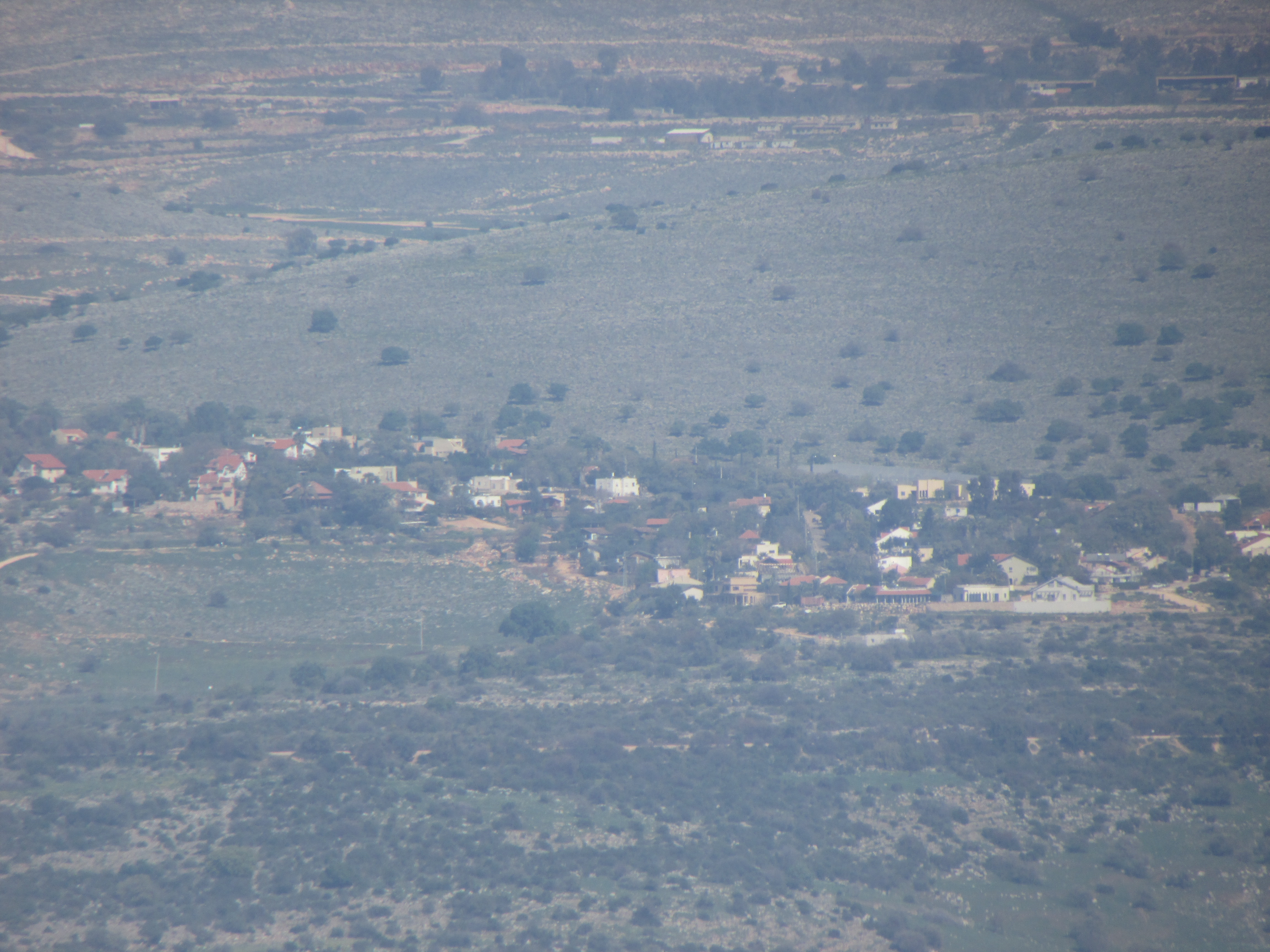 Kahal as viewed from mount Arbel in the south